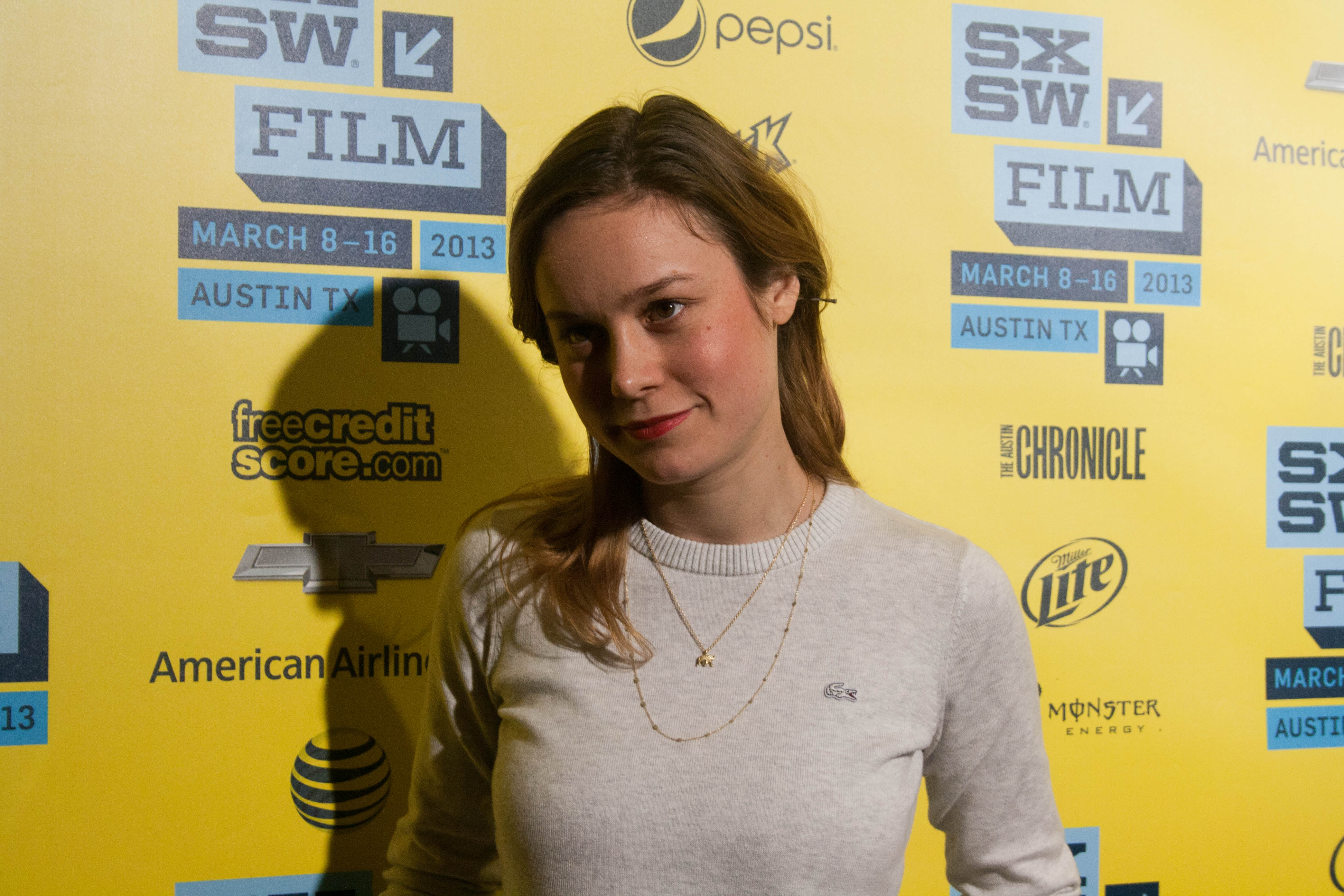 DonJonSXSW2013 (6 of 51).jpg